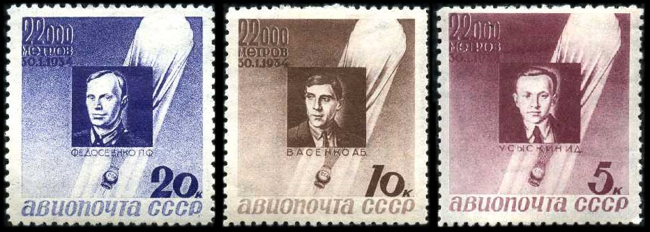 1934 Soviet stamps commemorating the crash of Osoaviakhim-1 balloon (January 30, 1934)